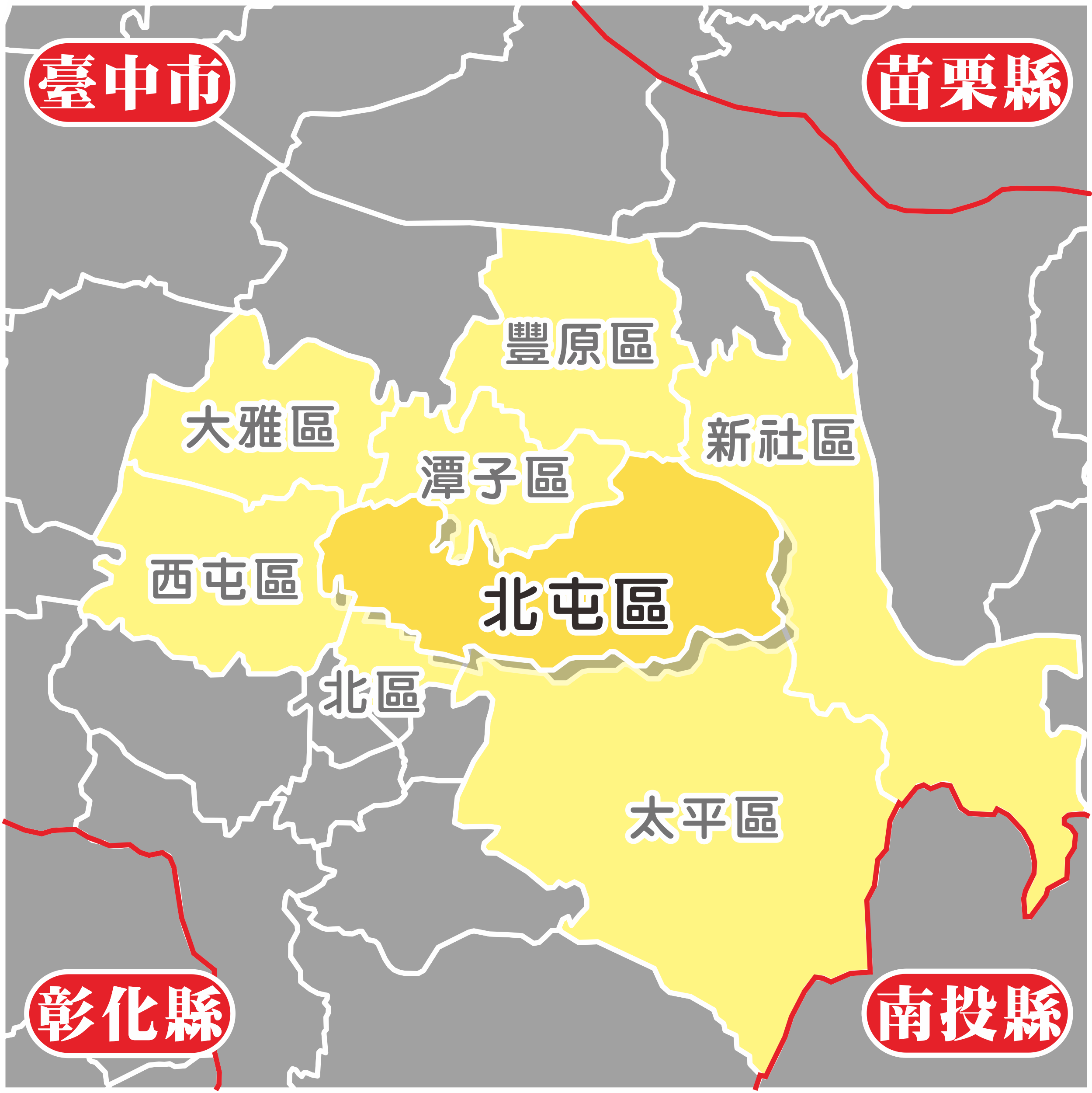 Beitun District